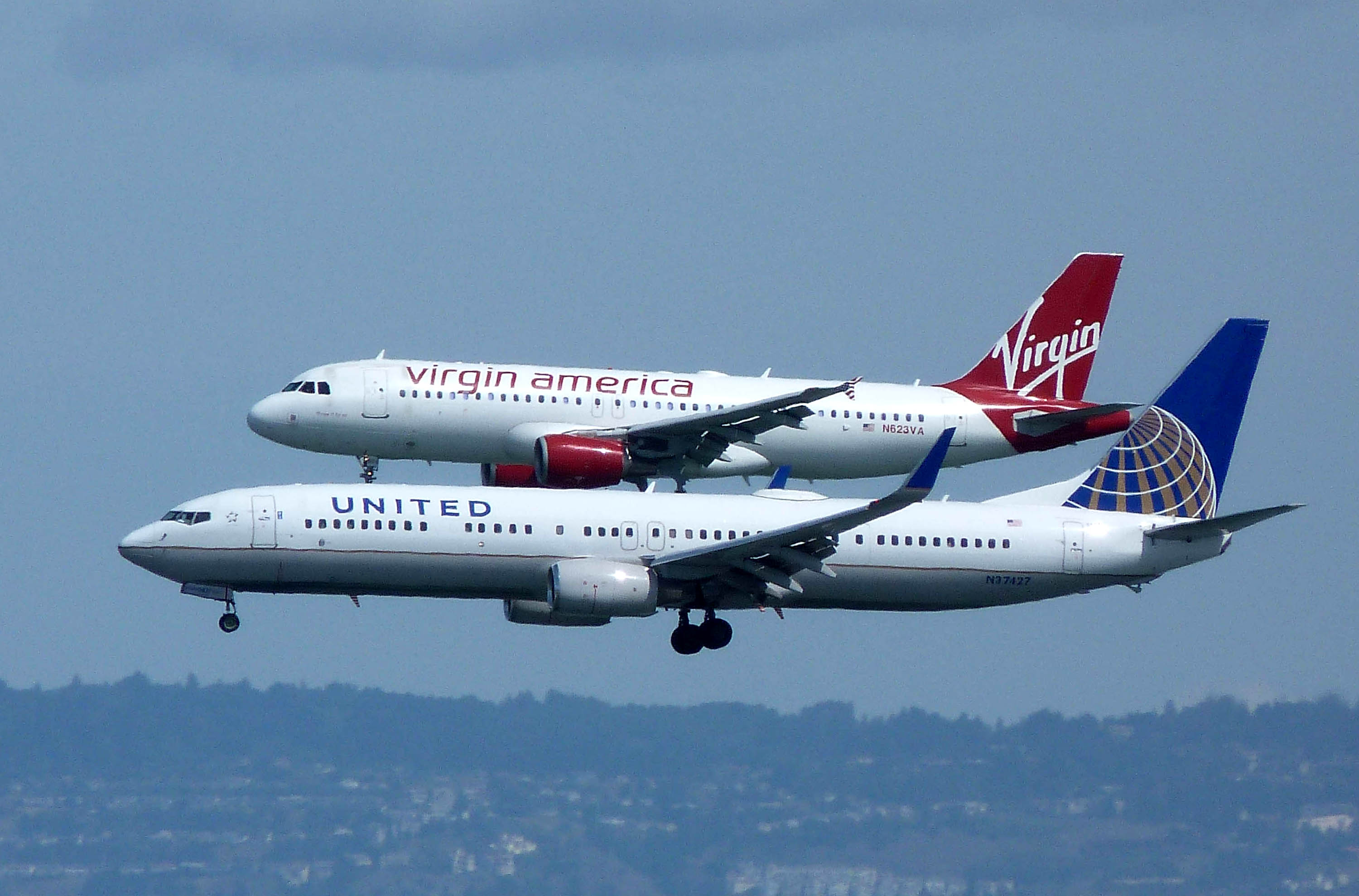 UnitedandVA 32315